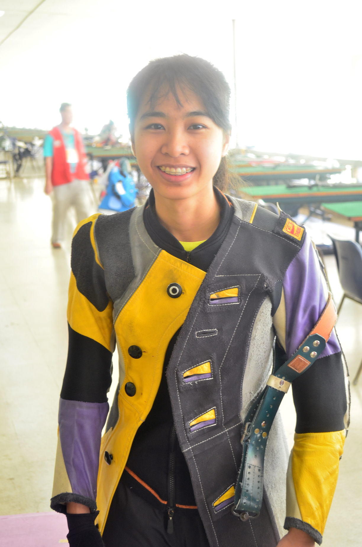 Thanyalak Chotphibunsin